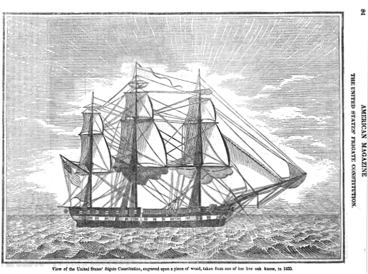 Illustration from: American Magazine of Useful and Entertaining Knowledge. vol.1, 1834.